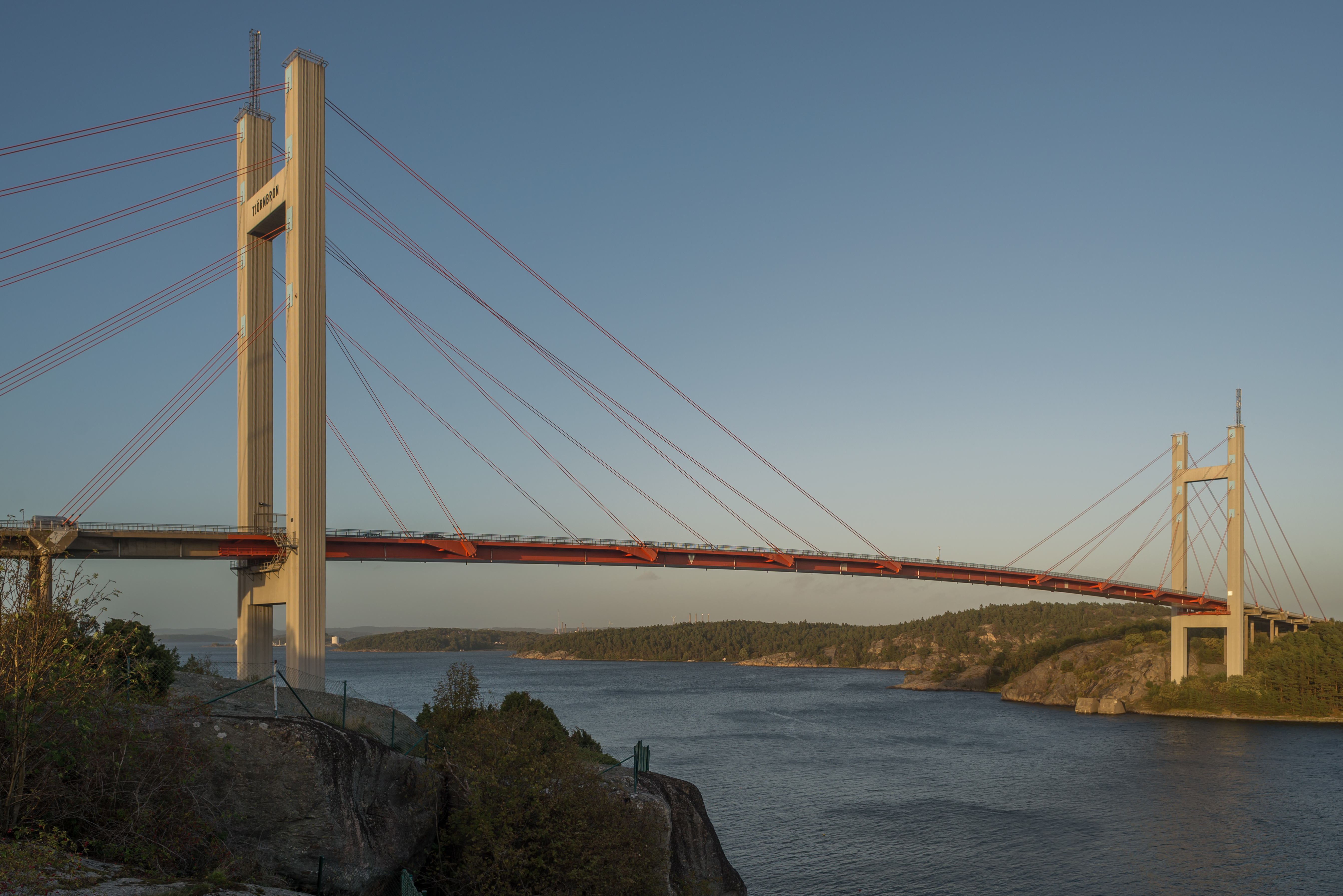 Tjörnbron (Tjörn bridge). Tjörnbron is one of three bridges along Tjörnbroleden that connects the islands of Tjörn and Orust to the mainland. Inaugurated in 1981, the bridge was built in record time after its predecessor, the Almö Bridge, which was inaugurated in June 1960, collapsed after the bulk carrier MS Star Clipper collided with its span on 18 January 1980.